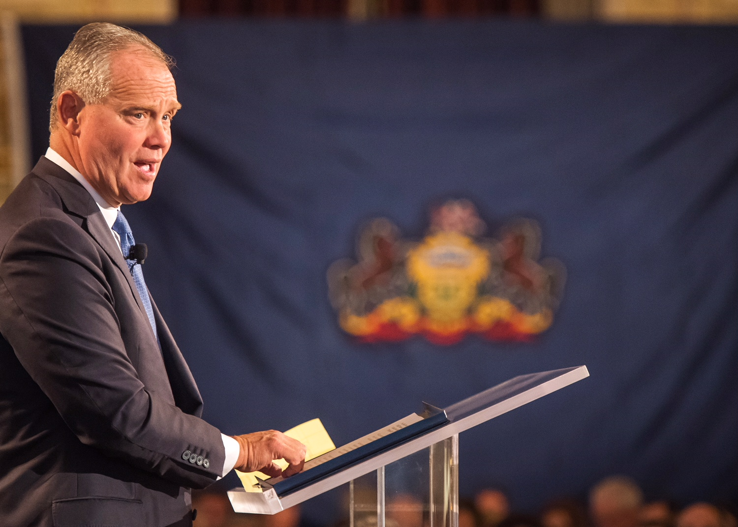 Pennsylvania gubernatorial candidate Mike Turzai delivering a speech